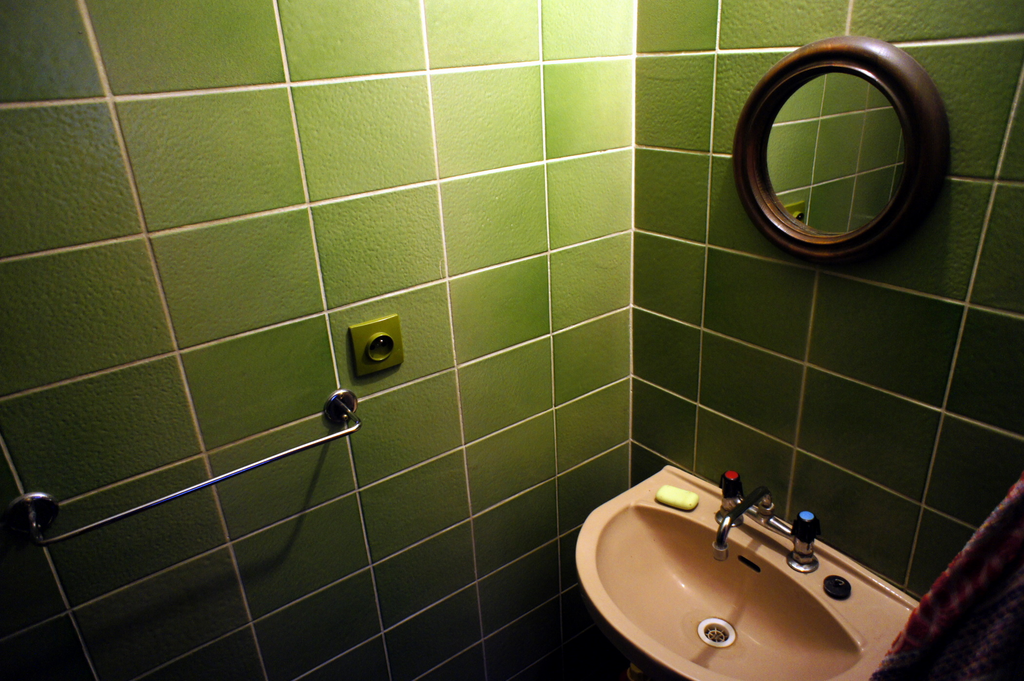 Bathroom in times of the socialism (1988 r.)Wall tiles bought by all-night expectation for sale.